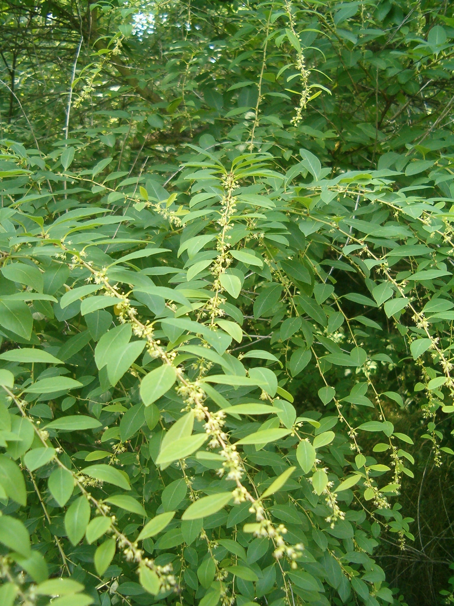 At Botanical Gardens Berlin-Dahlem Species Flueggea suffruticosa male pflant